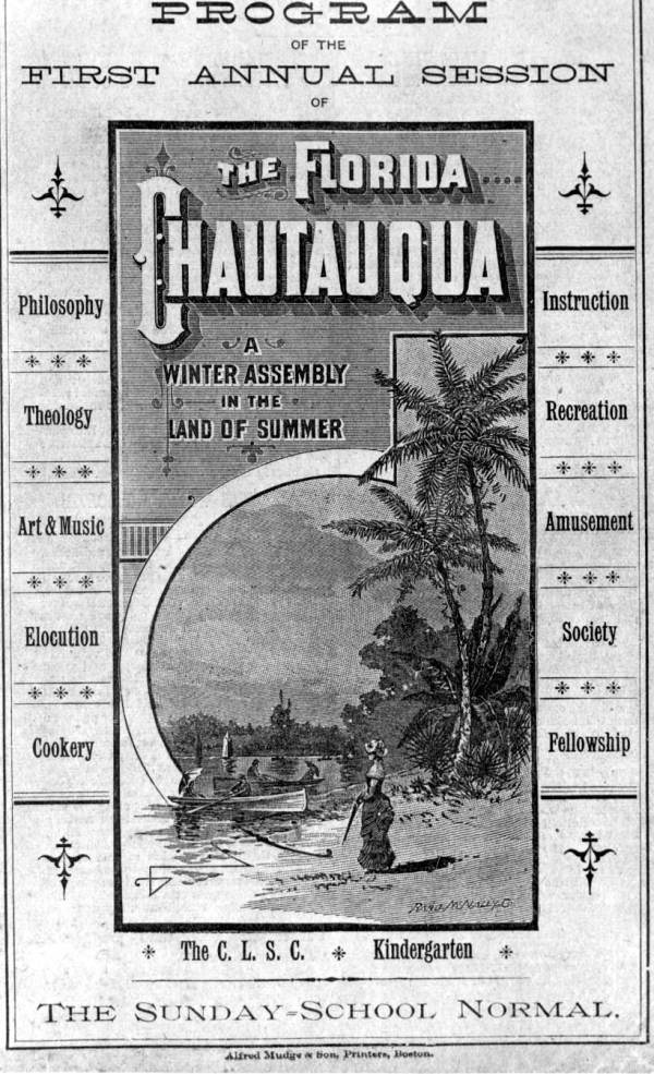 Program of the first annual session of the Florida Chautauqua at DeFuniak Springs from February 10th to March 9th, 1885.